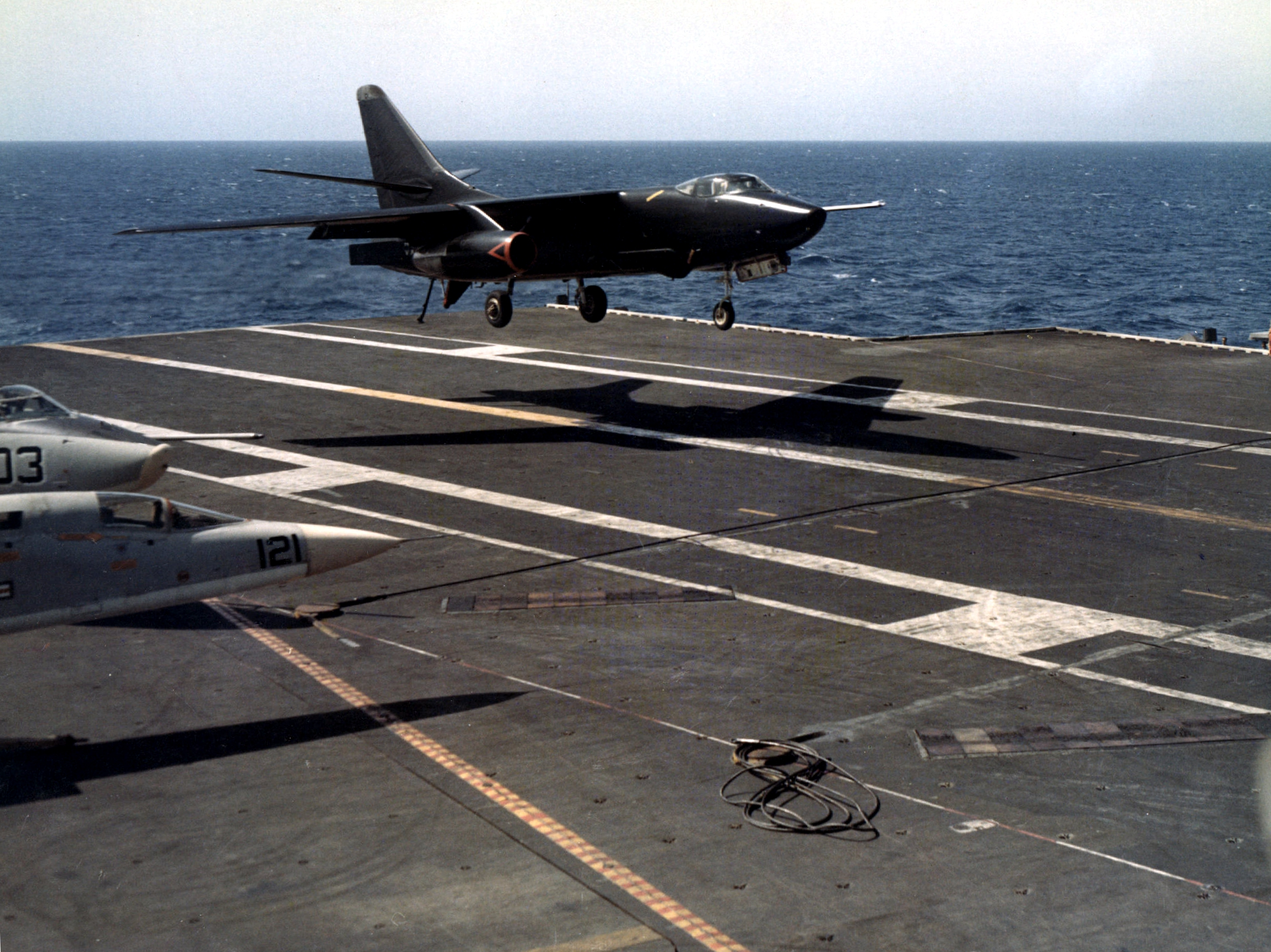 A U.S. Navy Douglas RA-3B Skywarrior of Heavy Photographic Reconnaissance Squadron VAP-61 "World Recorders" landing aboard the aircraft carrier USS Kitty Hawk (CVA-63), circa 1968. This Skywarrior was used for night reconnaissance over Vietnam.